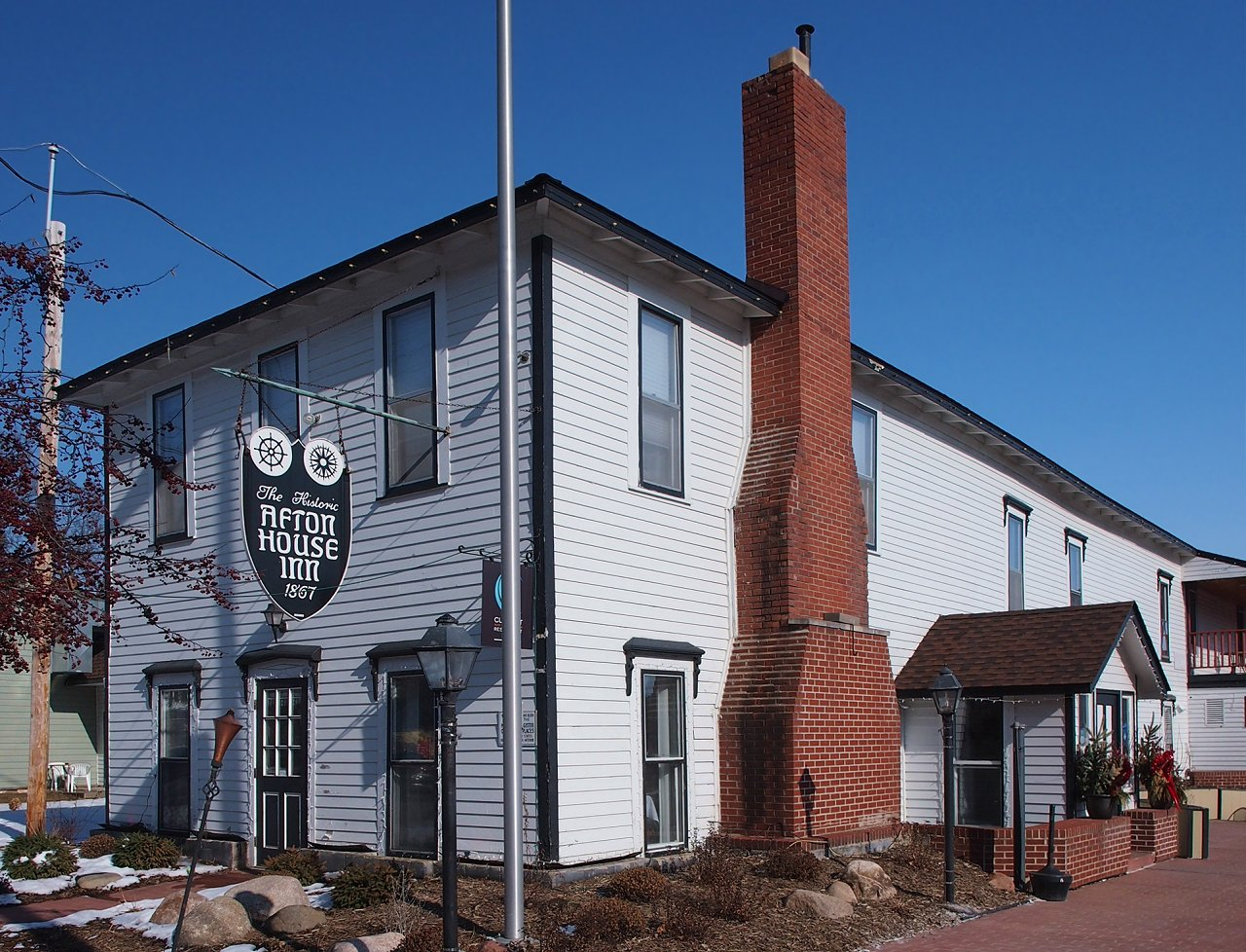 Cushing Hotel (now the Afton House Inn), 3291 St Croix Trail Ave S, Afton, Minnesota, USA. The chimney, side entrance, and rear wing (off-frame) are later additions. Viewed from the southwest.